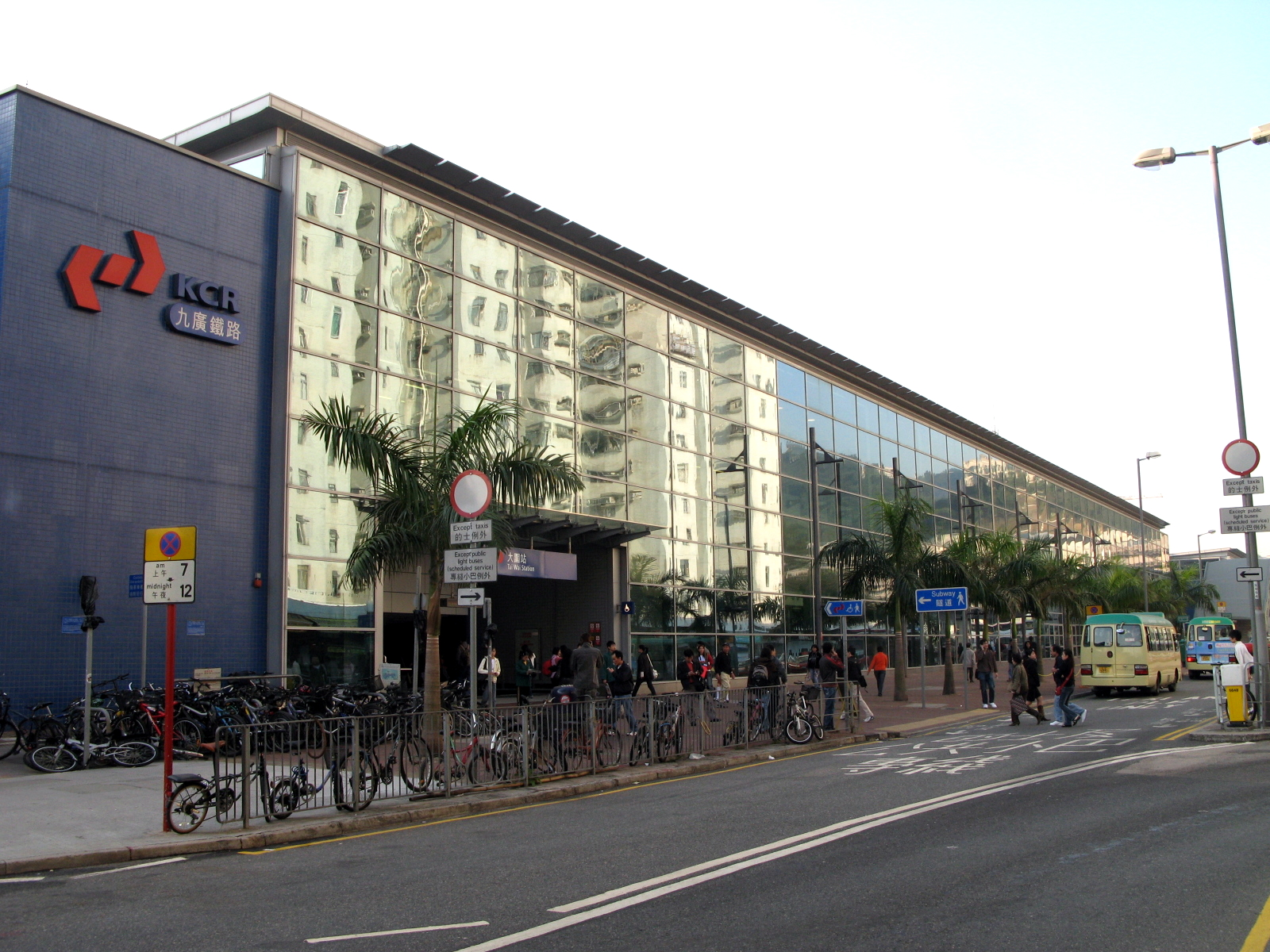 HK East Rail Line Tai Wai Station